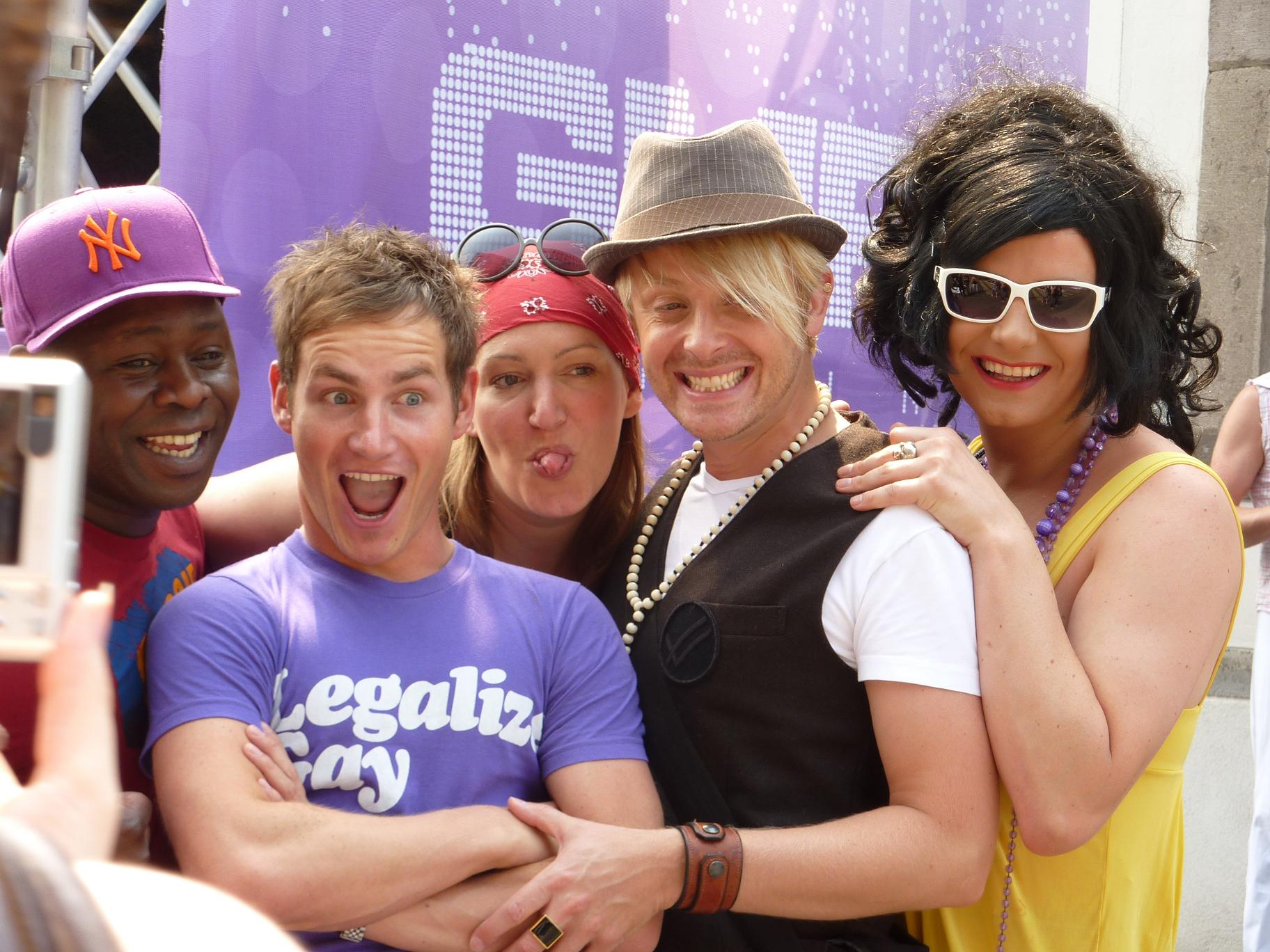 Ricky Breitengraser and the Village Boys - jury